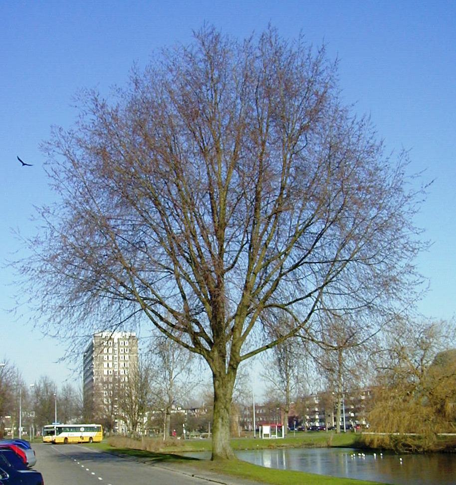 Ulmus hollandica 'Vegeta' in Groningen; Photo by R. Nijboer